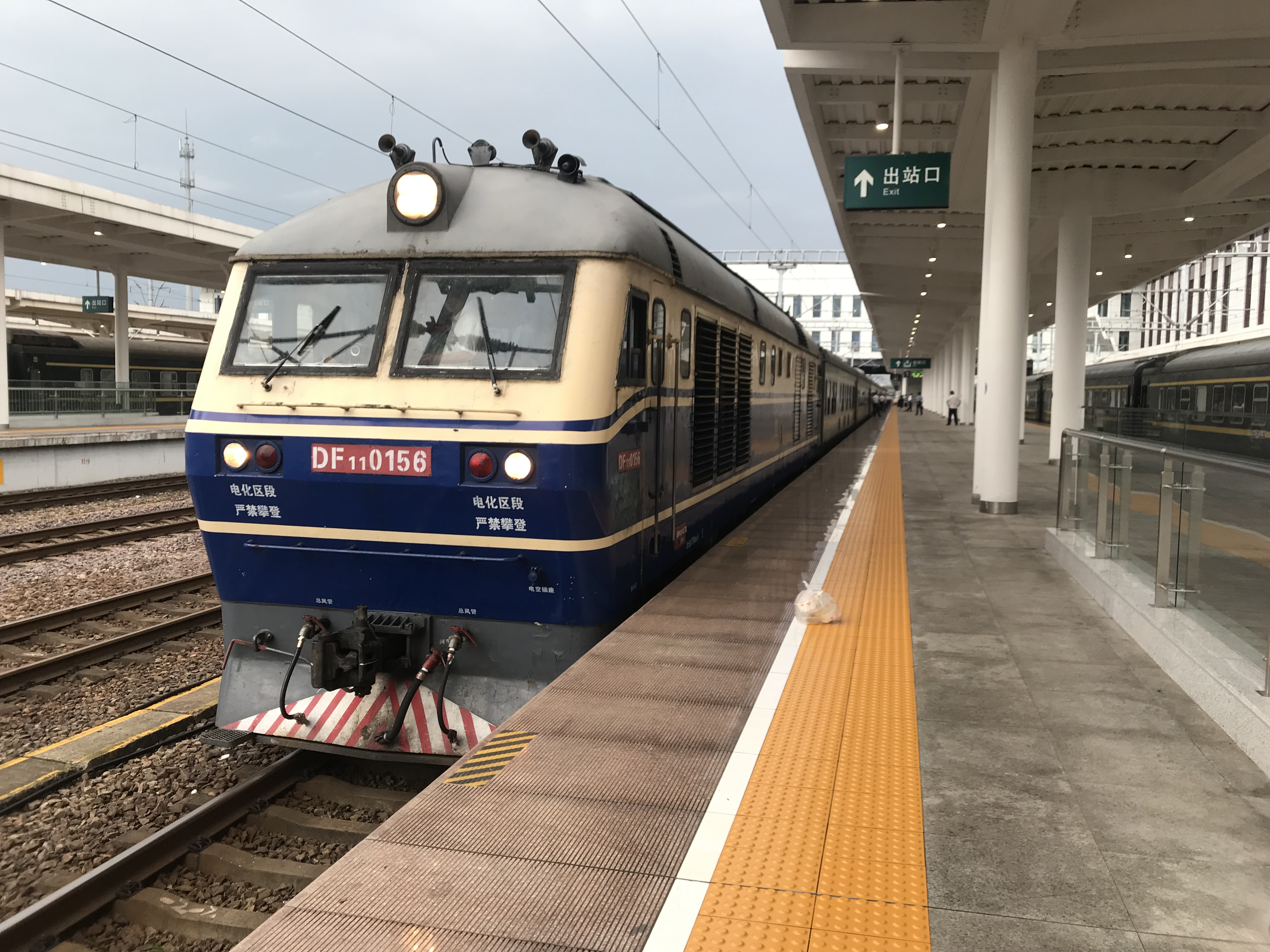 The only CR diesel (for passenger services) here...